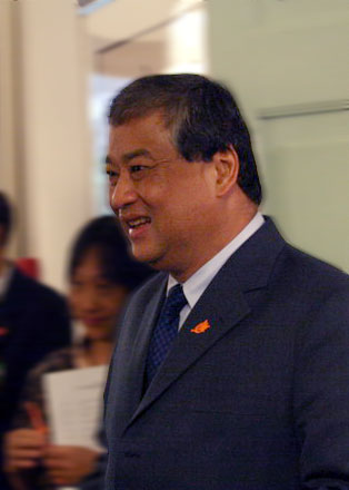 MR Sukhumbhand Paribatra at The Royal Dutch Embassy, Thailand seminar on 'Climate change:Working with Water'